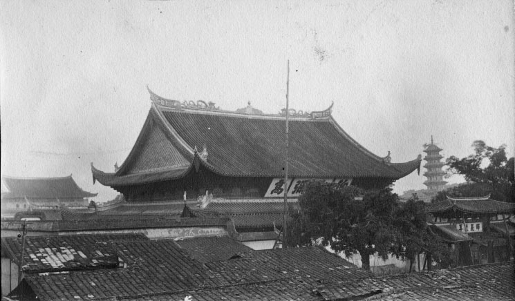 Foochow Confucian Temple, 1926